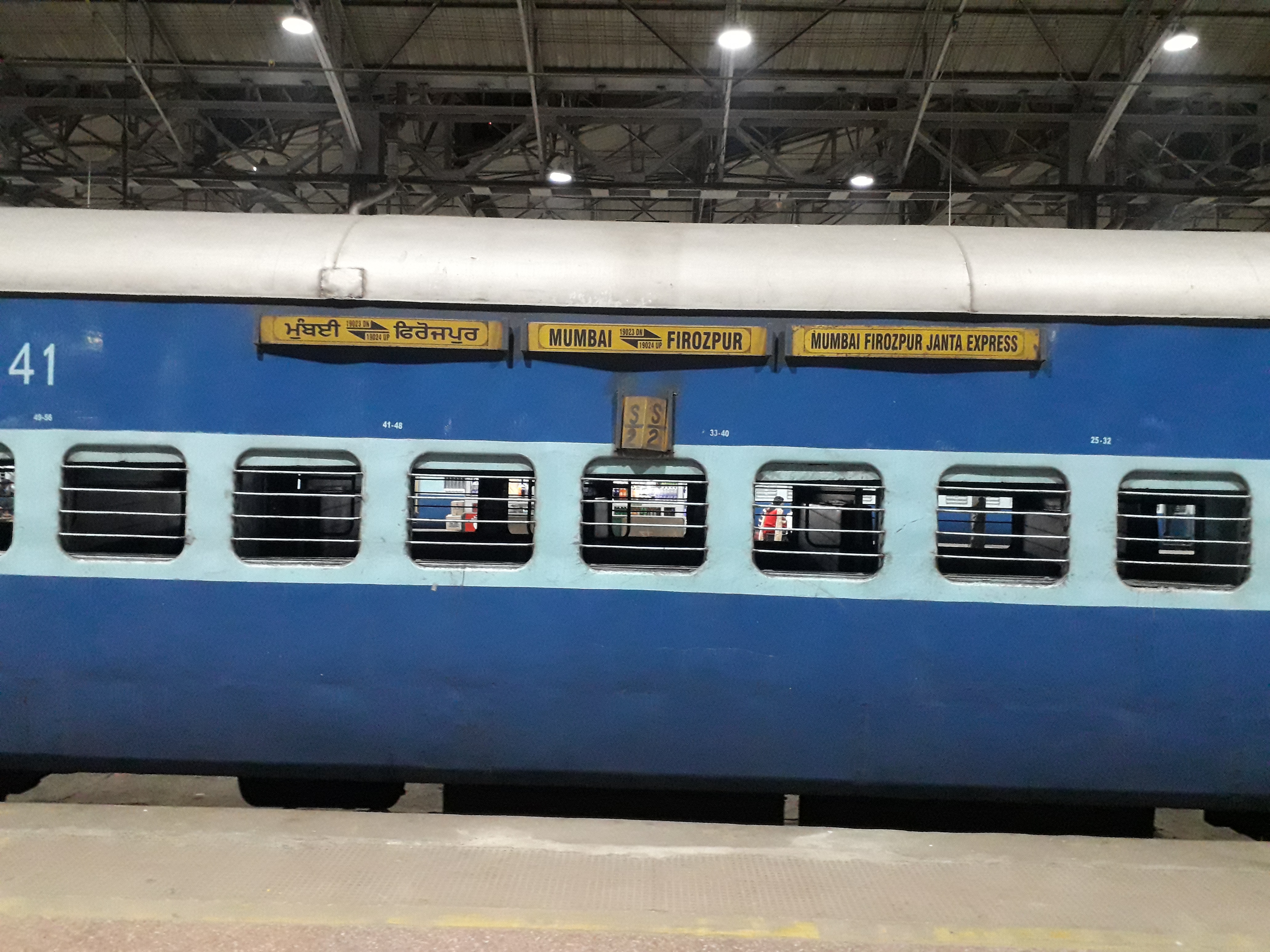 19024 Firozpur Janata Express - Sleeper Class coach